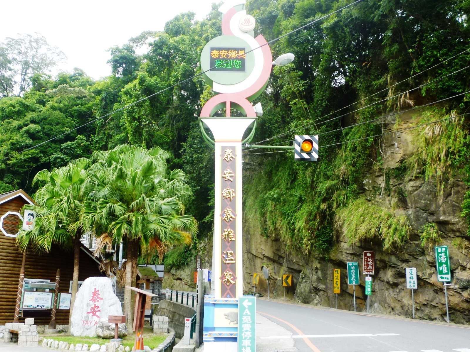 Entrance to the Taian Hot Spring.